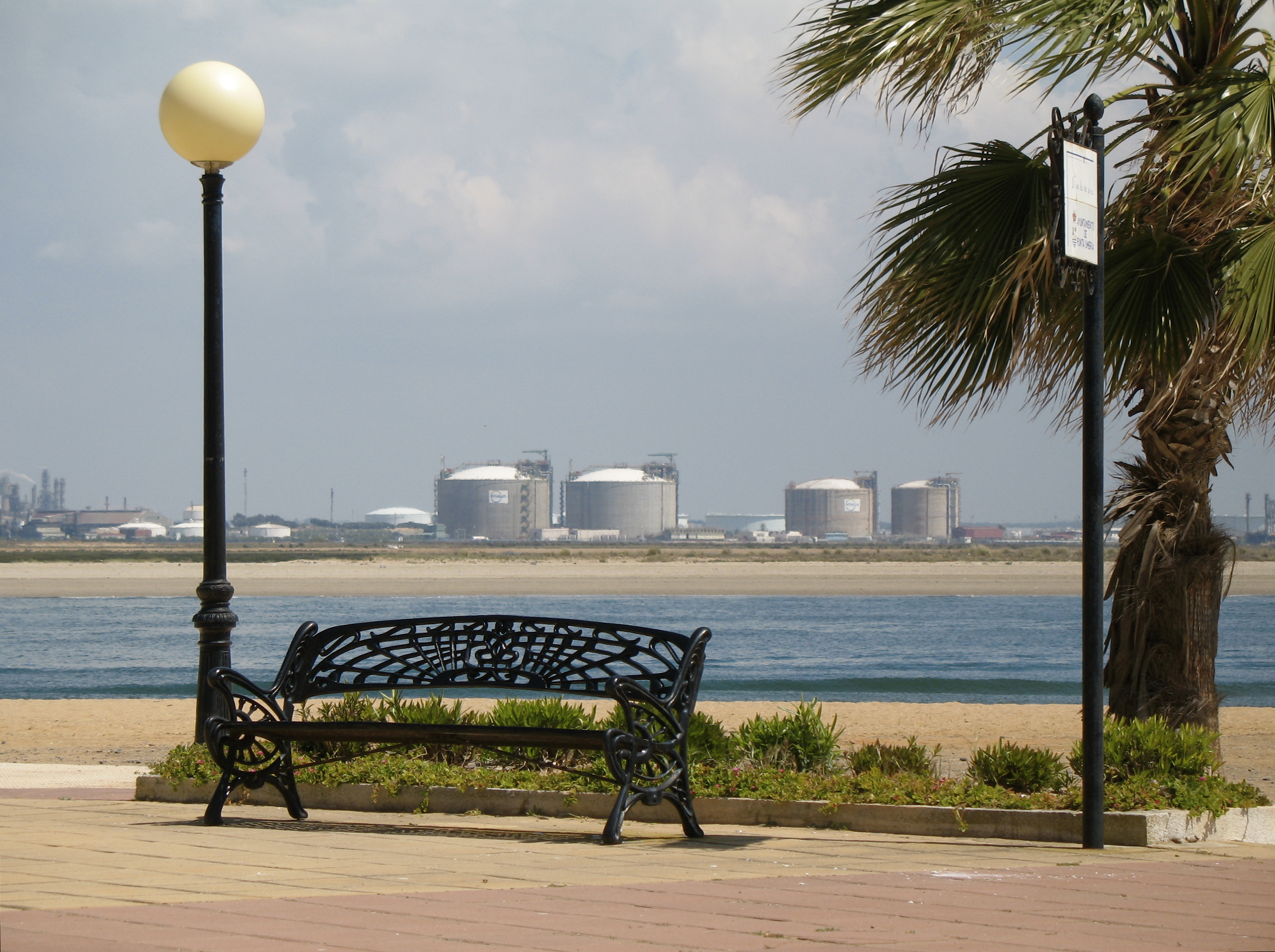 The Río Odiel and the industrial area of Huelva, seen from Punta Umbría (Province of Huelva, Spain).